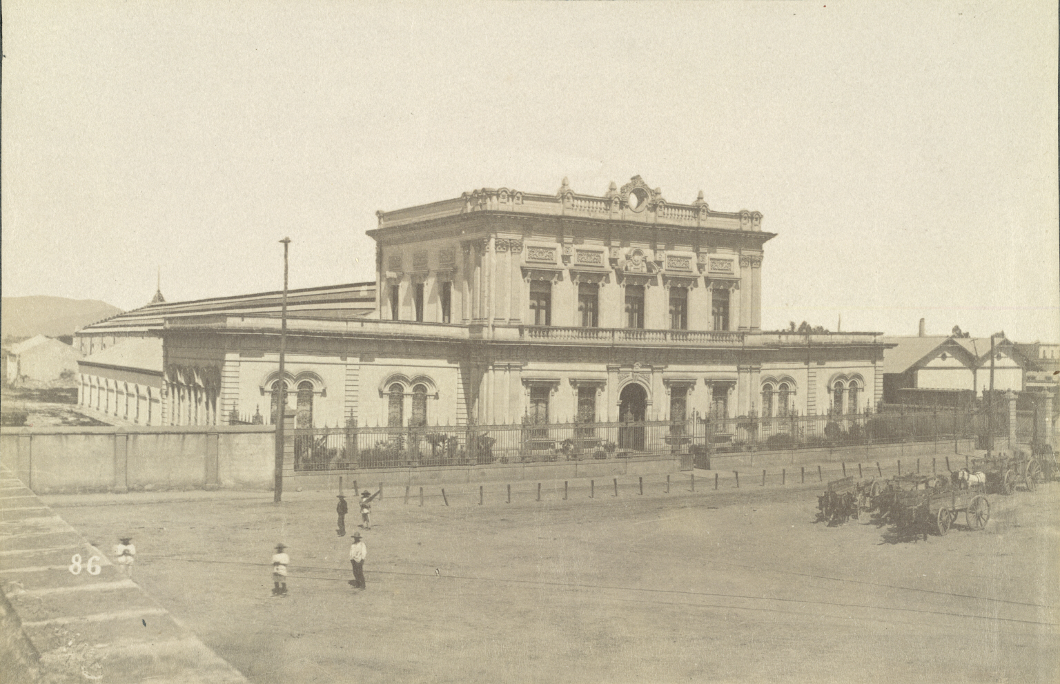 Collection: A. D. White Architectural Photographs, Cornell University Library Accession Number: 15/5/3090.00647 Title: Mexico City. Train Station Publisher: Claudio Pellandini Photograph date: ca. 1885-ca. 1895 Location: North and Central America: Mexico; Mexico City Materials: albumen print Image: 4 7/8 x 7 5/8 in.; 12.3825 x 19.3675 cm Provenance: Schuchardt Collection Persistent URI: [1] There are no known U.S. copyright restrictions on this image. The digital file is owned by the Cornell University Library which is making it freely available with the request that, when possible, the Library be credited as its source. We had some help with the geocoding from Web Services by Yahoo!